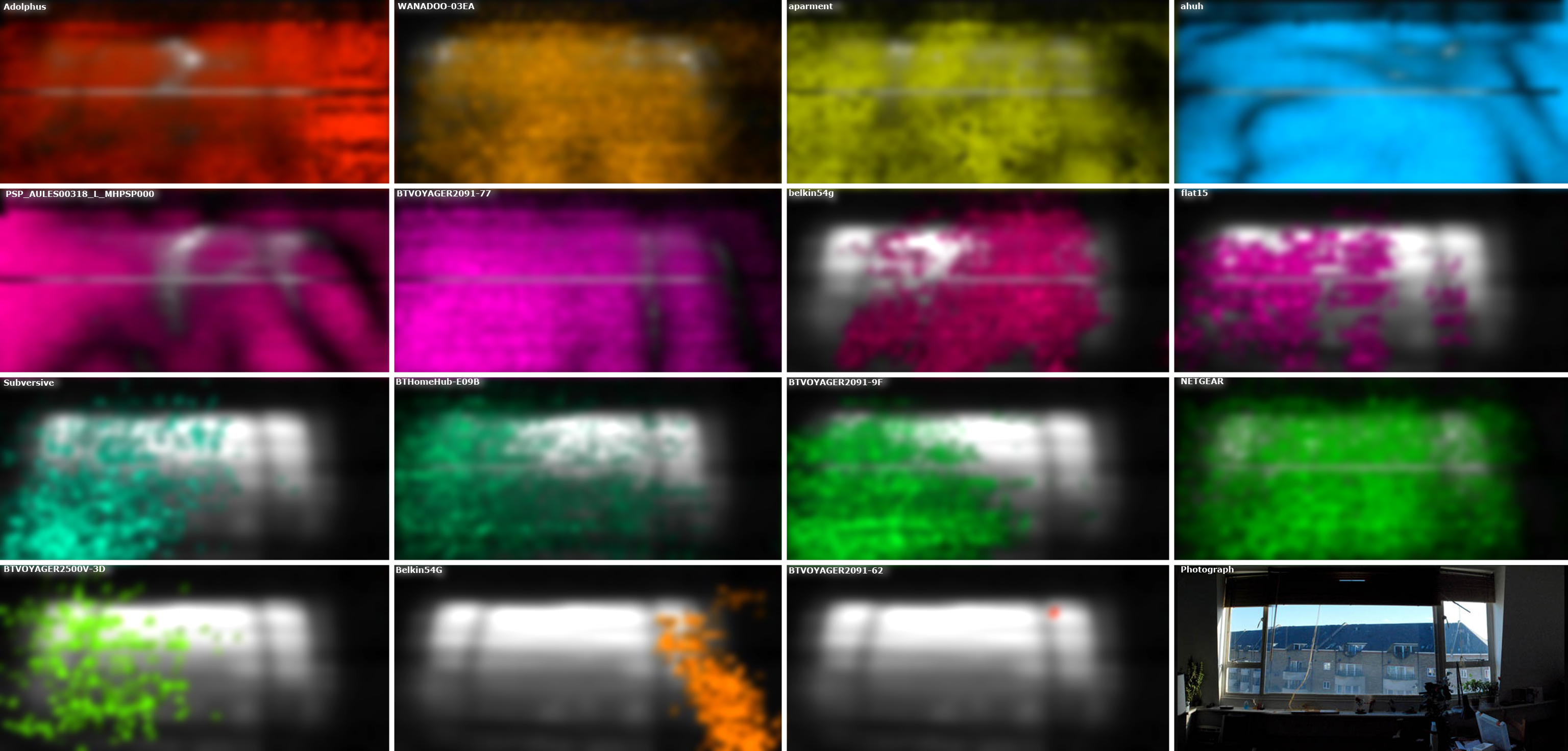 Wifi Camera reveals the electromagnetic space of our devices and the shadows that we create within such spaces, in particular our wifi networks which are increasingly found in coffee shops, offices and homes throughout cities of the developed world. We will take real time "photos" of wifi space.